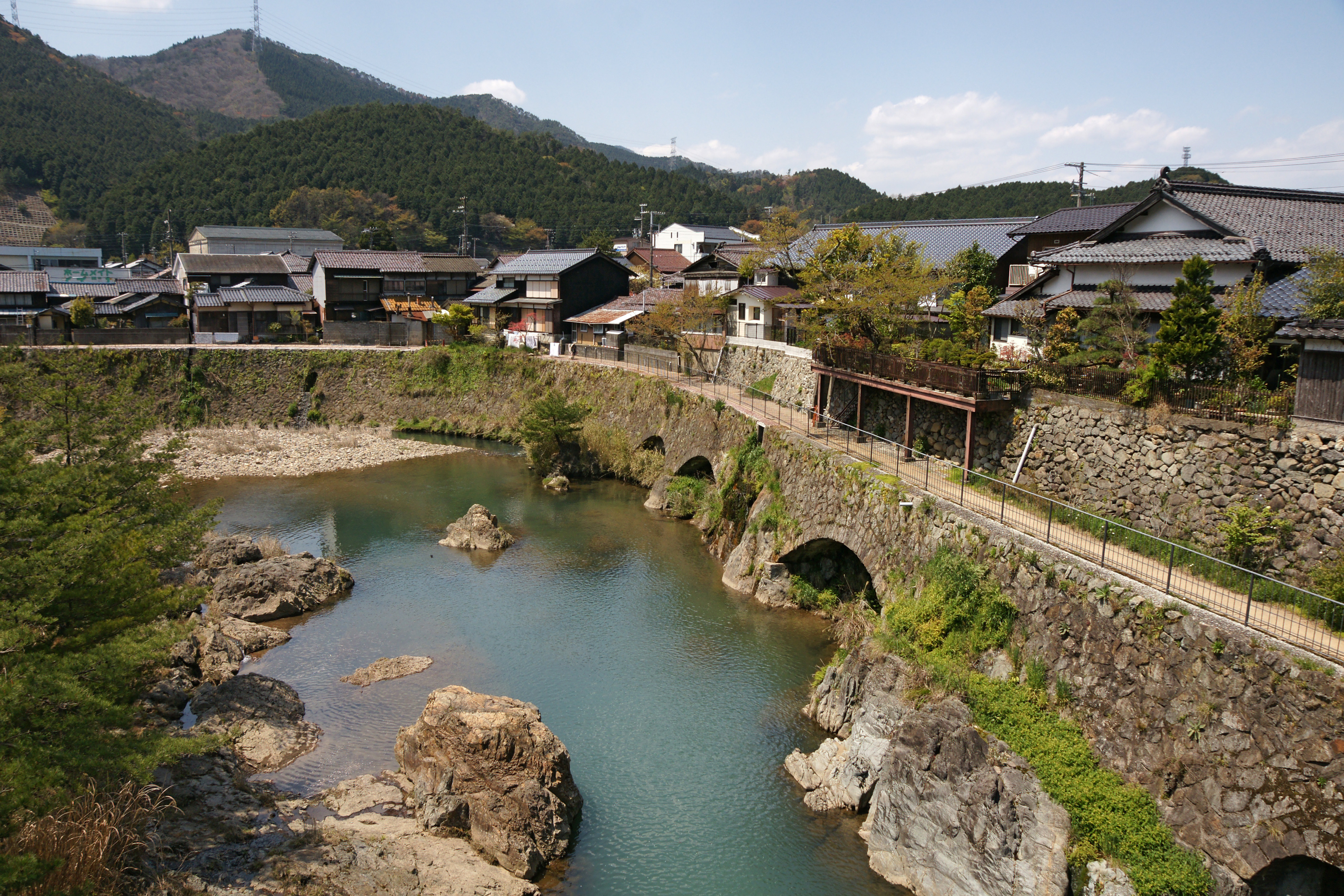 Ruins in the railway between Ikuno mine and Kuchiganaya in Kuchiganaya, Ikuno, Asago, Hyogo prefecture, Japan.